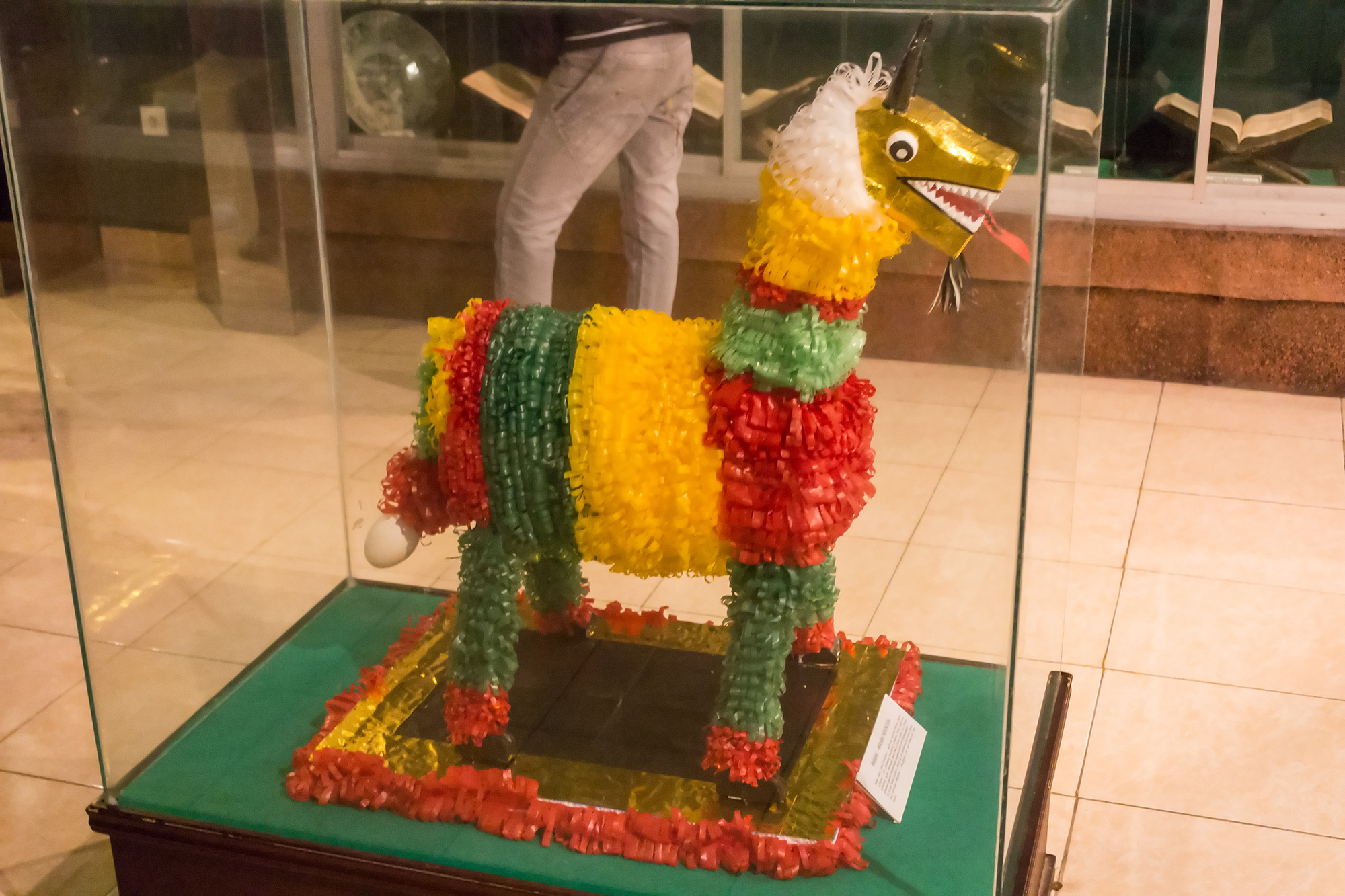 Warak ngendog, in the collection of the Great Mosque of Central Java, 2014-06-17